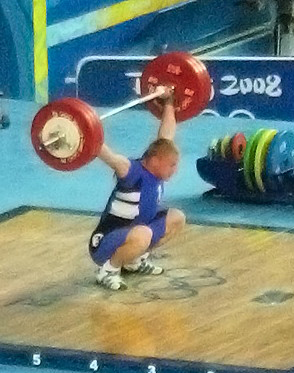 Andrei Rybakou of Belarus Weightlifting at the 2008 Summer Olympics in the 85kg category.